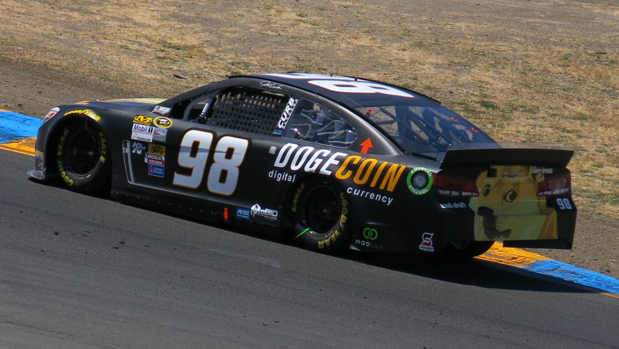 Josh Wise's No. 98 Dogecoin Chevrolet at Sonoma Raceway in 2014